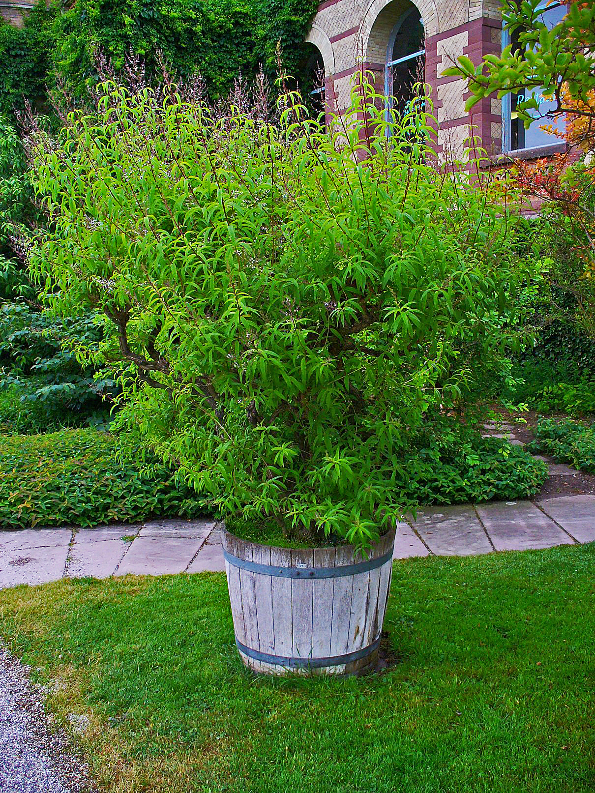 Aloysia citrodora, Verbenaceae, Lemon Verbena, Lemon Beebrush, habitus; Botanical Garden Karlsruhe, Germany.